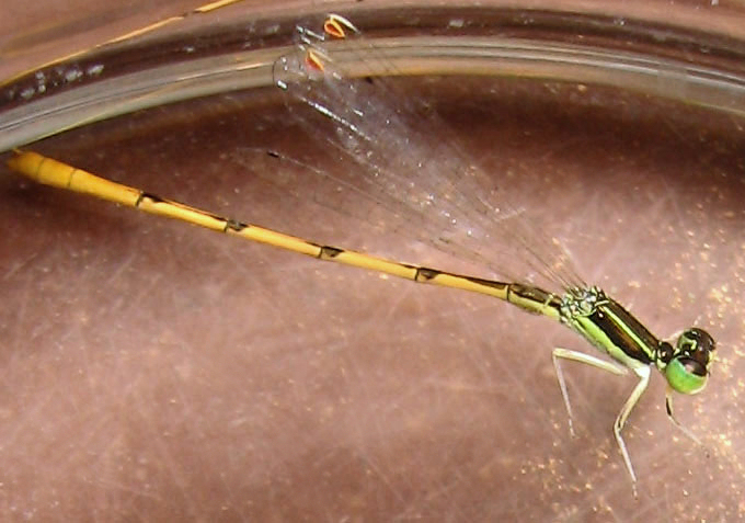 Another Citrine Forktail